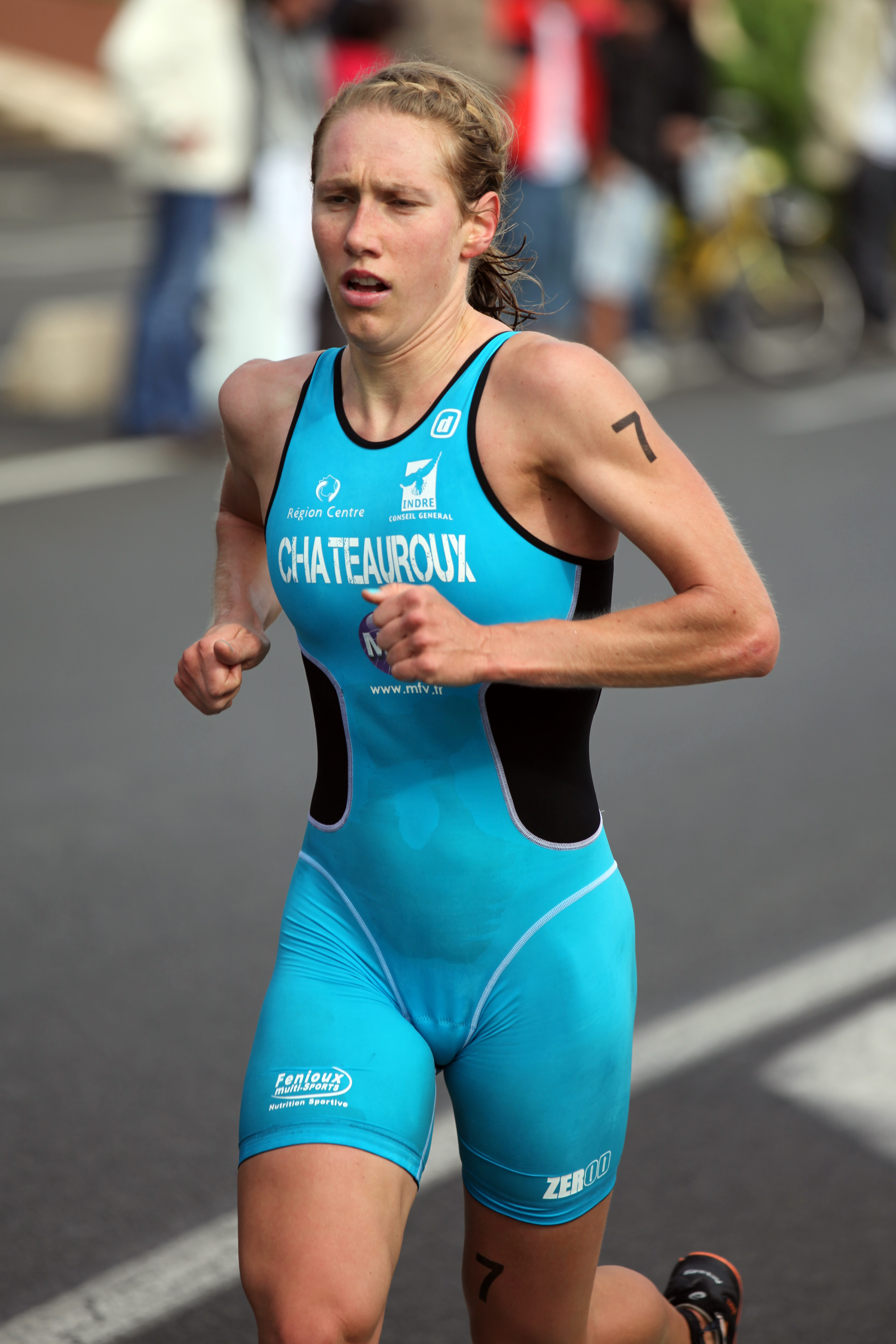 Svenja Bazlen (Tri Club Chateauroux 36) winning the gold medal at the French Grand Prix triathlon (French Club Championship Series Lyonnaise des Eaux) at the Grand Final in La Baule.